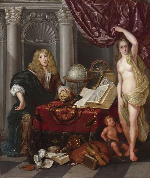 Self portrait in artist studio